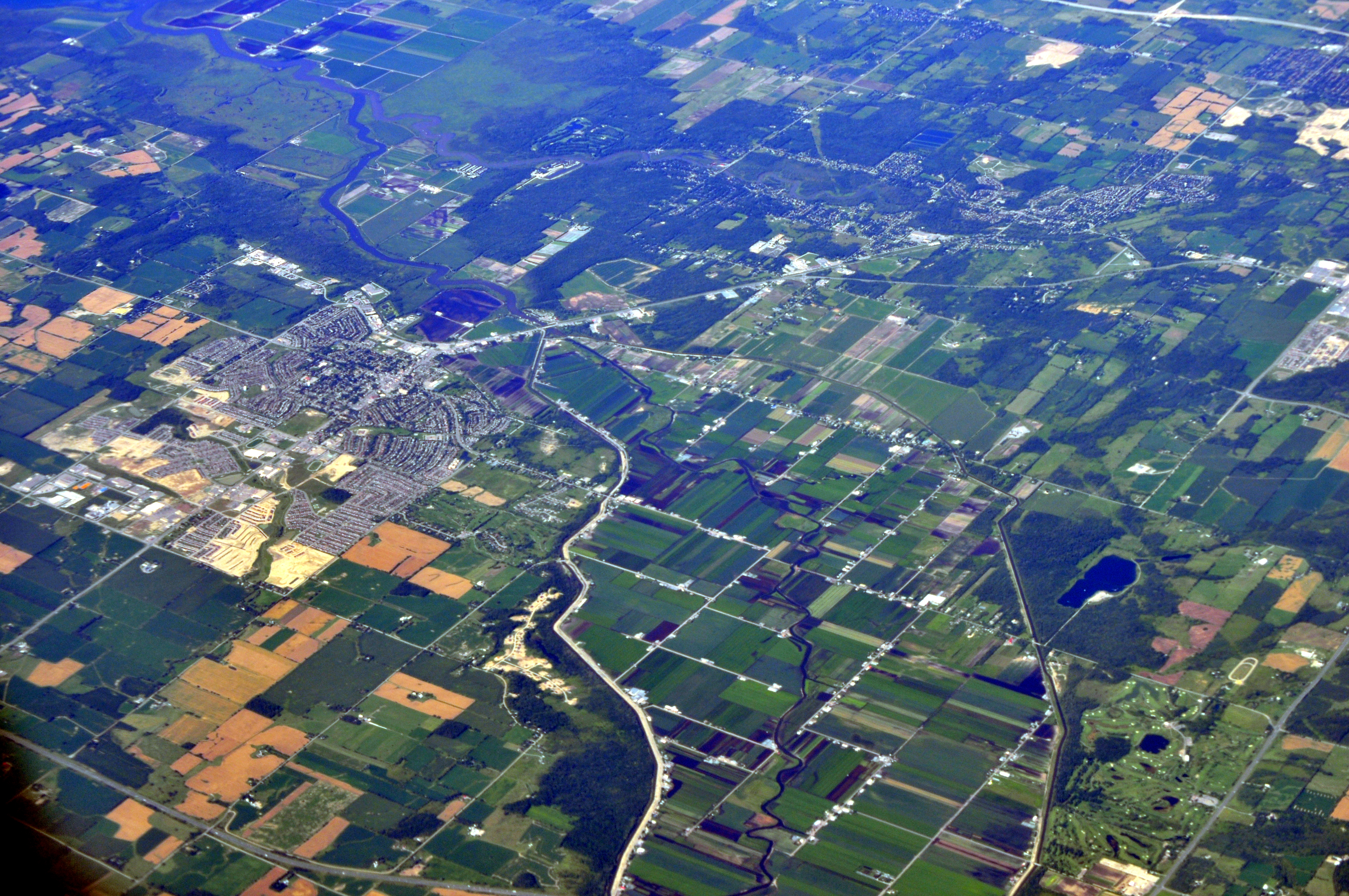 Aerial view of the valley of the Holland River immediately south of Cook's Bay, Lake Simcoe, Ontario. You can see just north of here, where the river enters the bay, at File:Aerial - Cooks Bay, Lake Simcoe, Ontario from SW 01 - white balanced (9659705784).jpg.